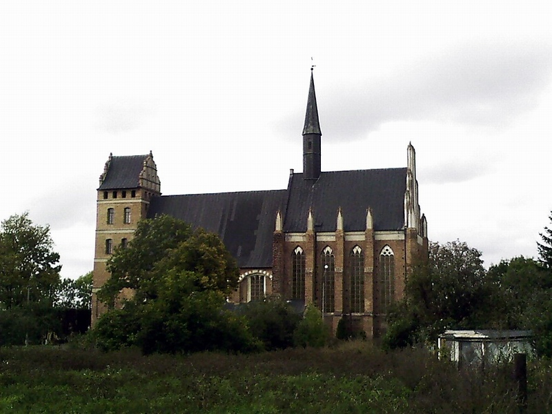 The church in Świecie, Poland.